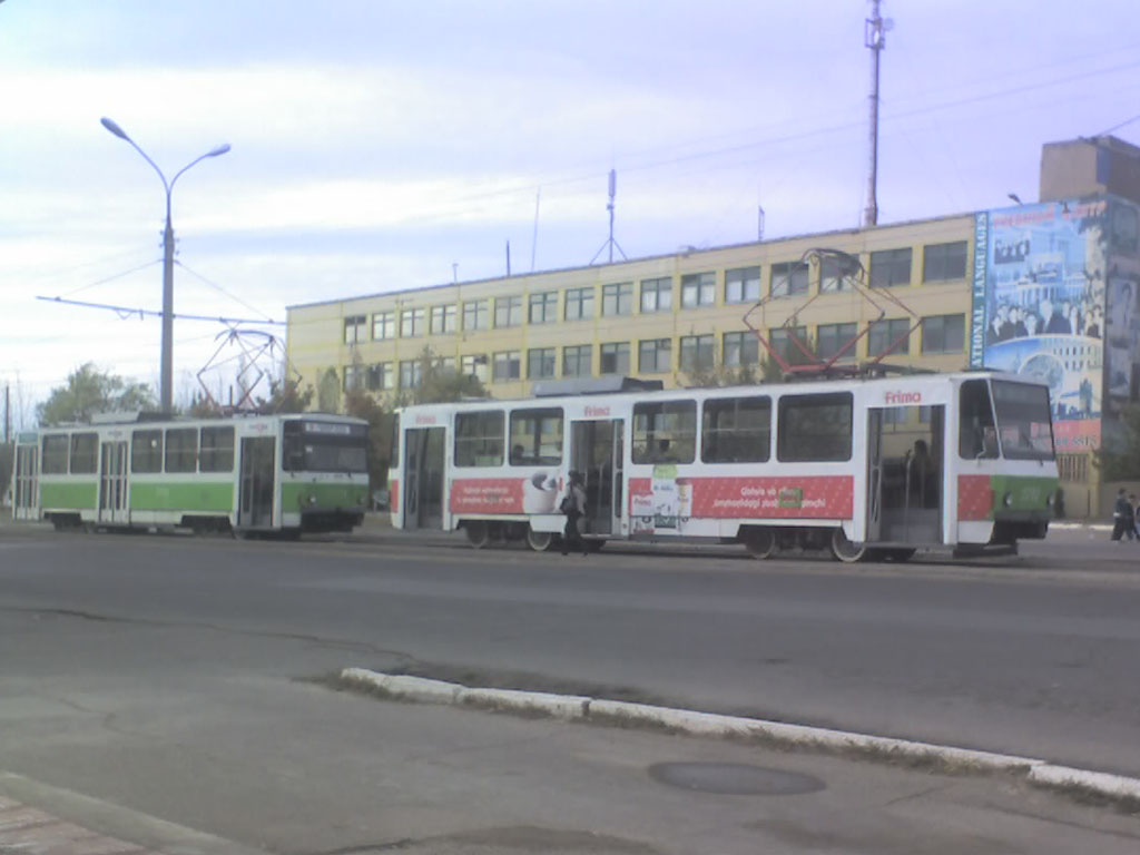 Tatra T6B5 wagons in Tashkent (Yangi Qoyliq street)